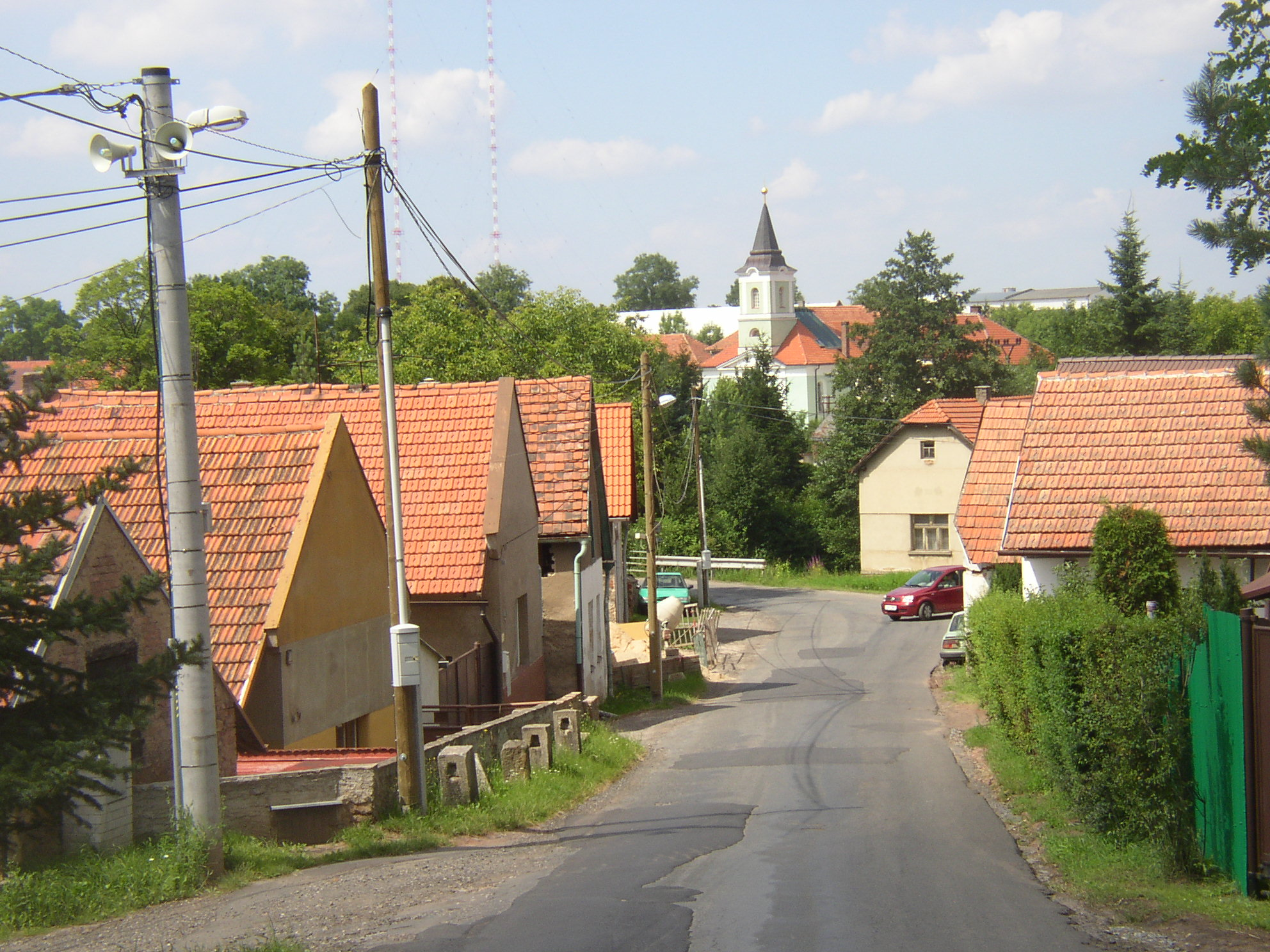 Kšely, Kolín District, Czech Republic. A view towards centre of the village from southeast, from Vitice road.